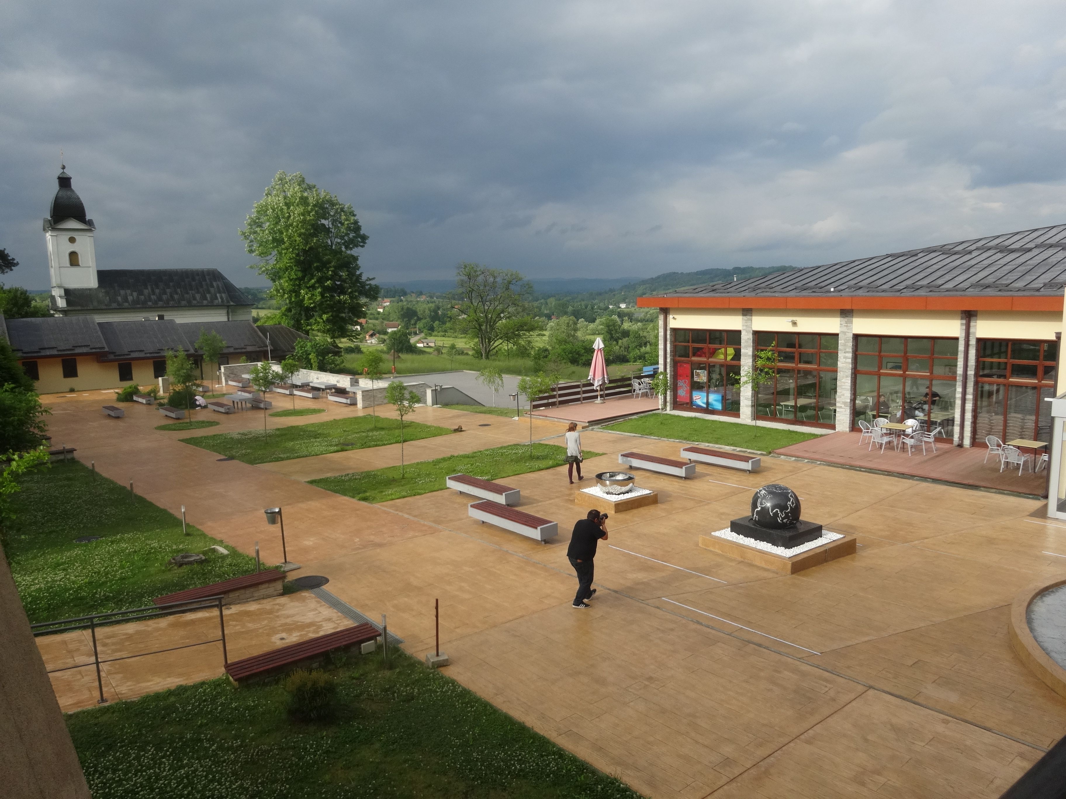 Petnica Science Center yard.